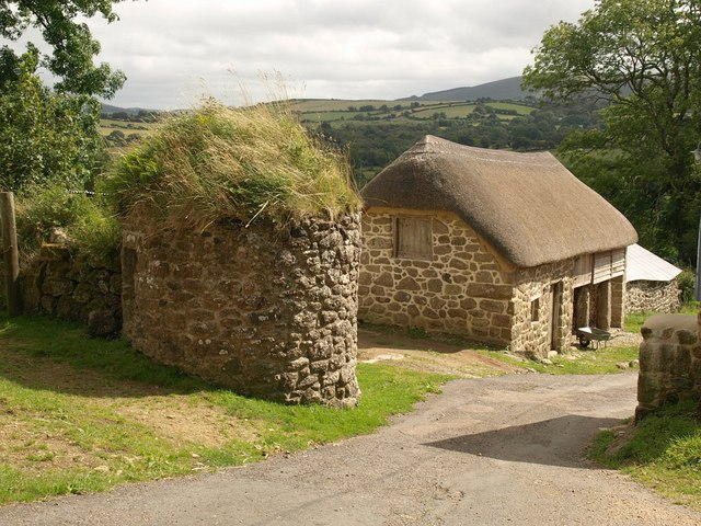 Ash house and barn, Yellands Ash houses, some of them in very good condition, are quite common on the northeastern fringes of Dartmoor. This good example is described thus: "probably C19. Granite rubble with roughly dressed blocks around the window and doorway. Circular ash house. Its conical roof is made up corbelled slabs of granite and covered with turf. The ash window on the north-east side has never contained a window-frame. Surprisingly the window is situated away from the farmhouse. The doorway is on the south-east side. It once had an iron door." The barn below has been beautifully restored and thatched in recent years.